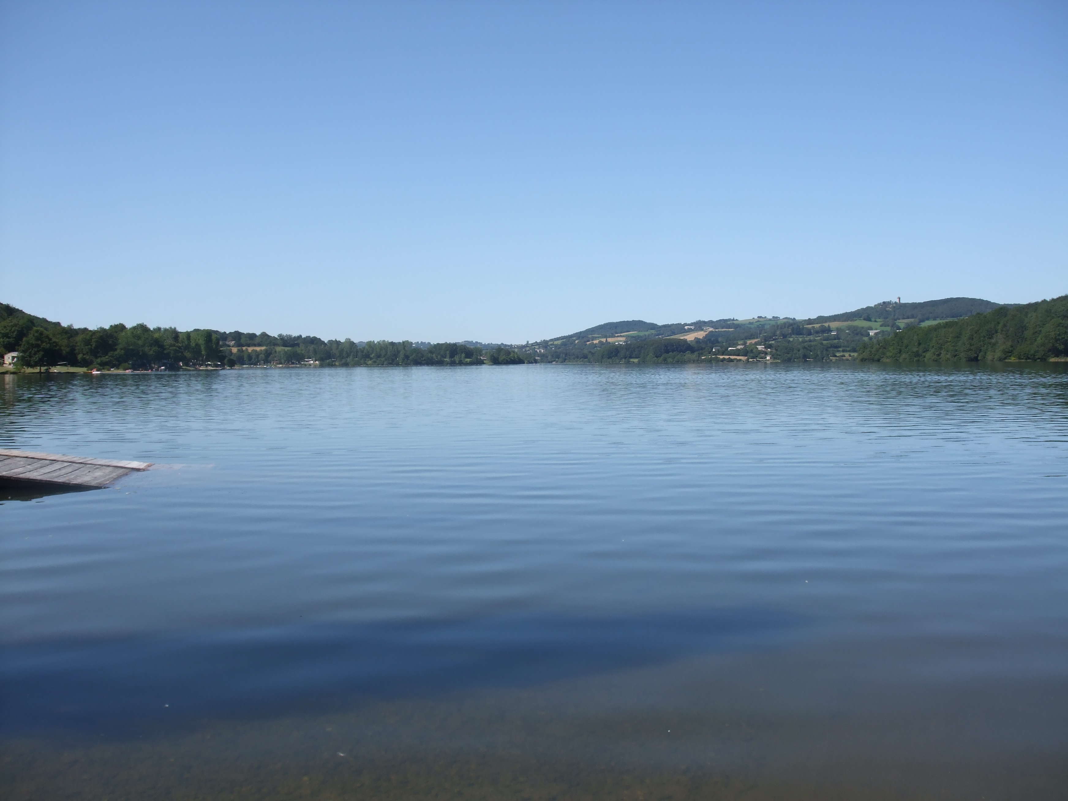 The Lac de Villefranche-de-Panat at Villefranche de Panat, Aveyron, France was created between 1949 and 1952 when the Alrance (river) was dammed as part of a large scheme to divert the waters of the Violou and Alrance to the Le Pouget (power station). The Lac de Pareloup discharges through this lake. The lake is also used for leisure.